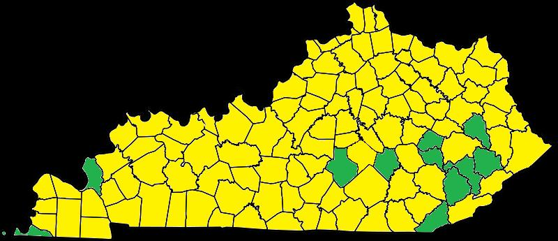 The county-by-county results of the 2010 Kentucky Primary election for the Republican nominee to the U. S. Senate. Counties carried by Rand Paul are in yellow. Counties carried by Trey Grayson are in green